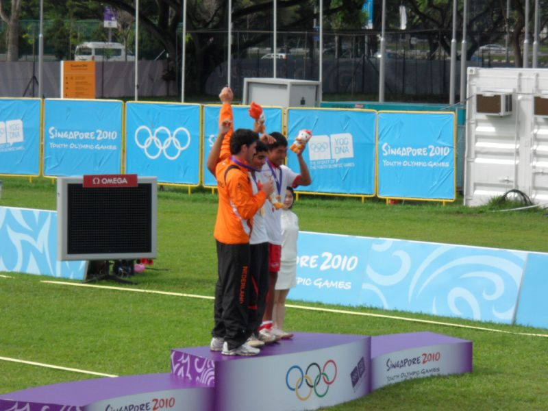 The medallists of the Junior Men's Individual archery competition at the 2010 Summer Youth Olympics on the victory podium at Kallang Field, Singapore. From left to right, they are Rick van den Oever (silver, Netherlands), Ibrahim Sabry (gold, Egypt) and Bolot Tsybzhitov (bronze, Russia).